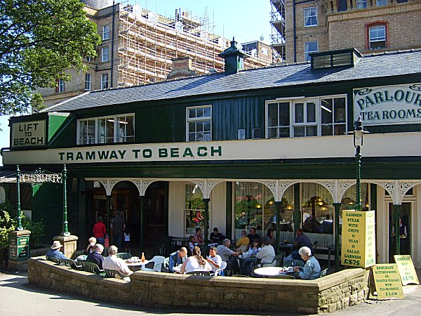 Scarborough Central Tramway.